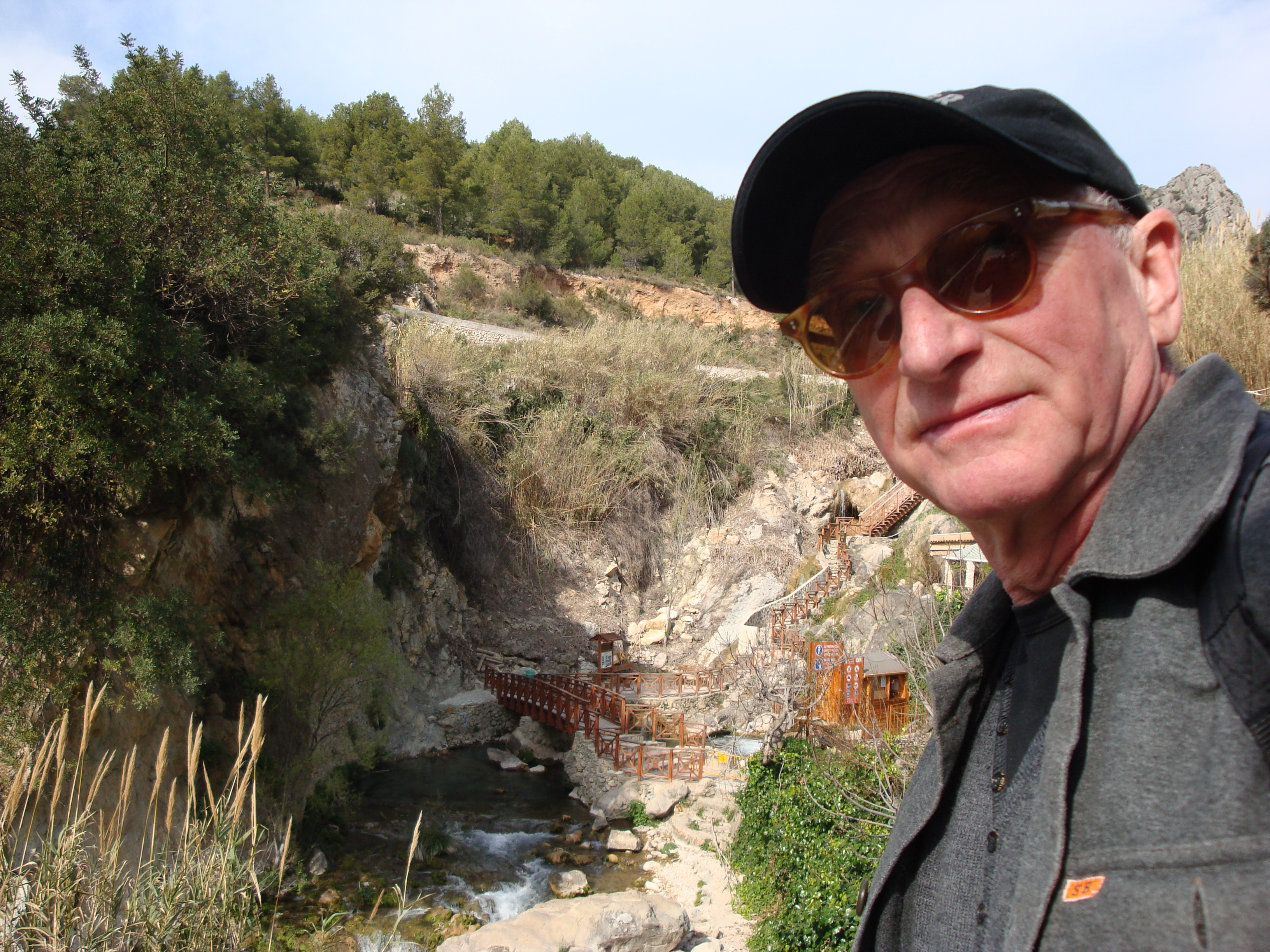 Jan de Bie in Callosa Spain 2009